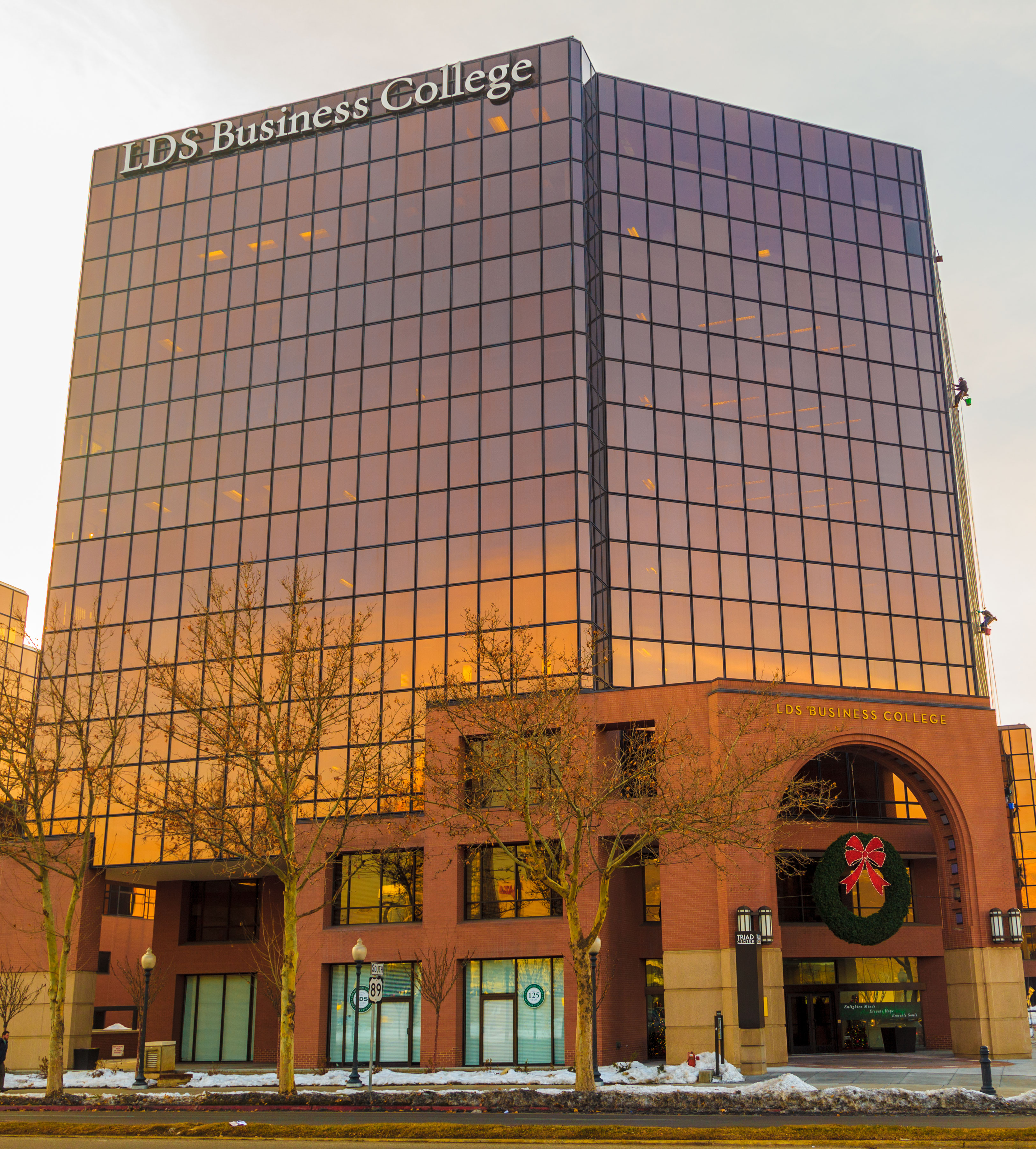 LDS Business College (LDSBC) of The Church of Jesus Christ of Latter-day Saints in the Triad Center in Salt Lake City, Utah, USA.